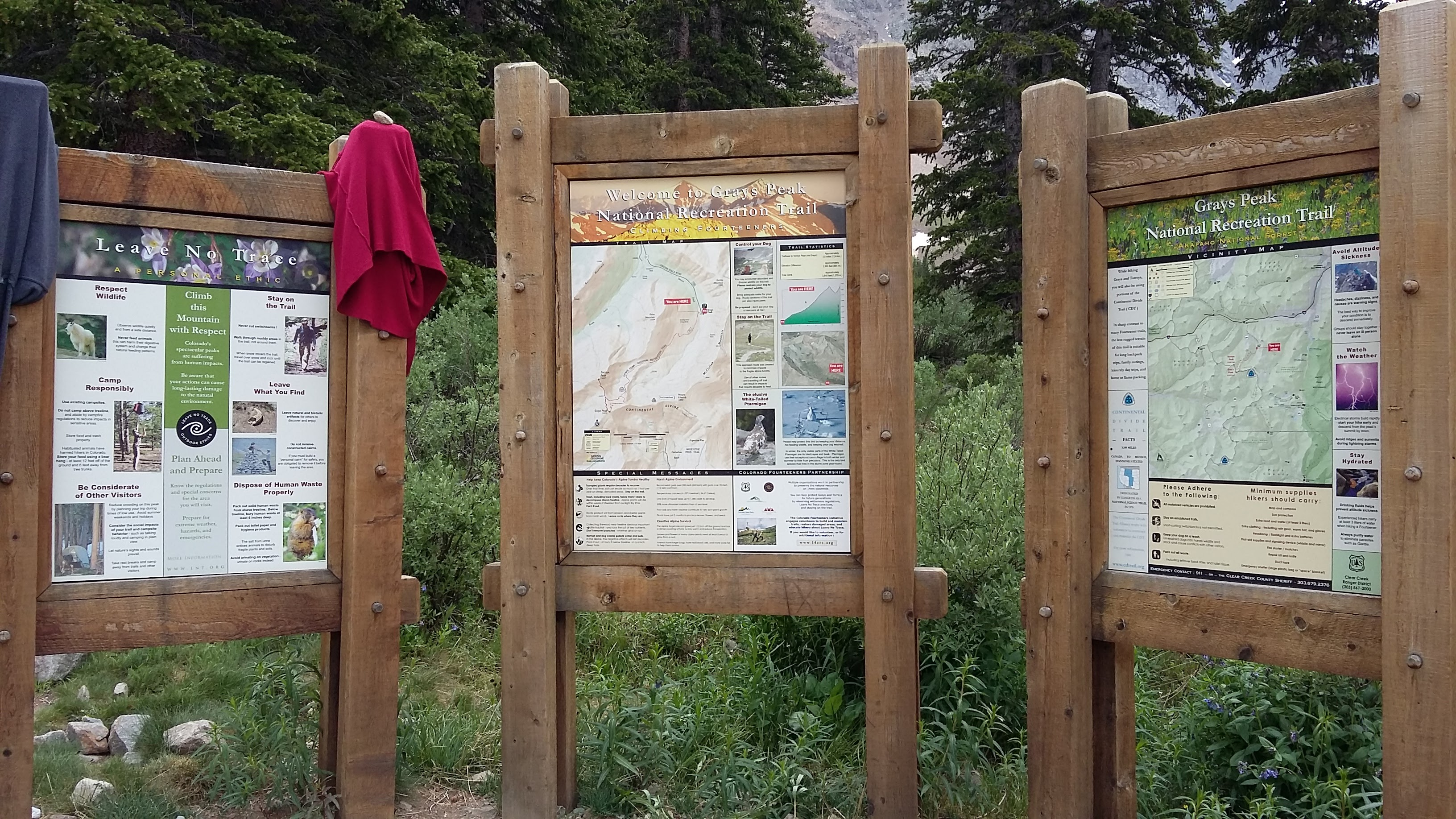 Information boards at Grays Peak Trailhead